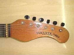 The headstock of a Tonante electric guitar.